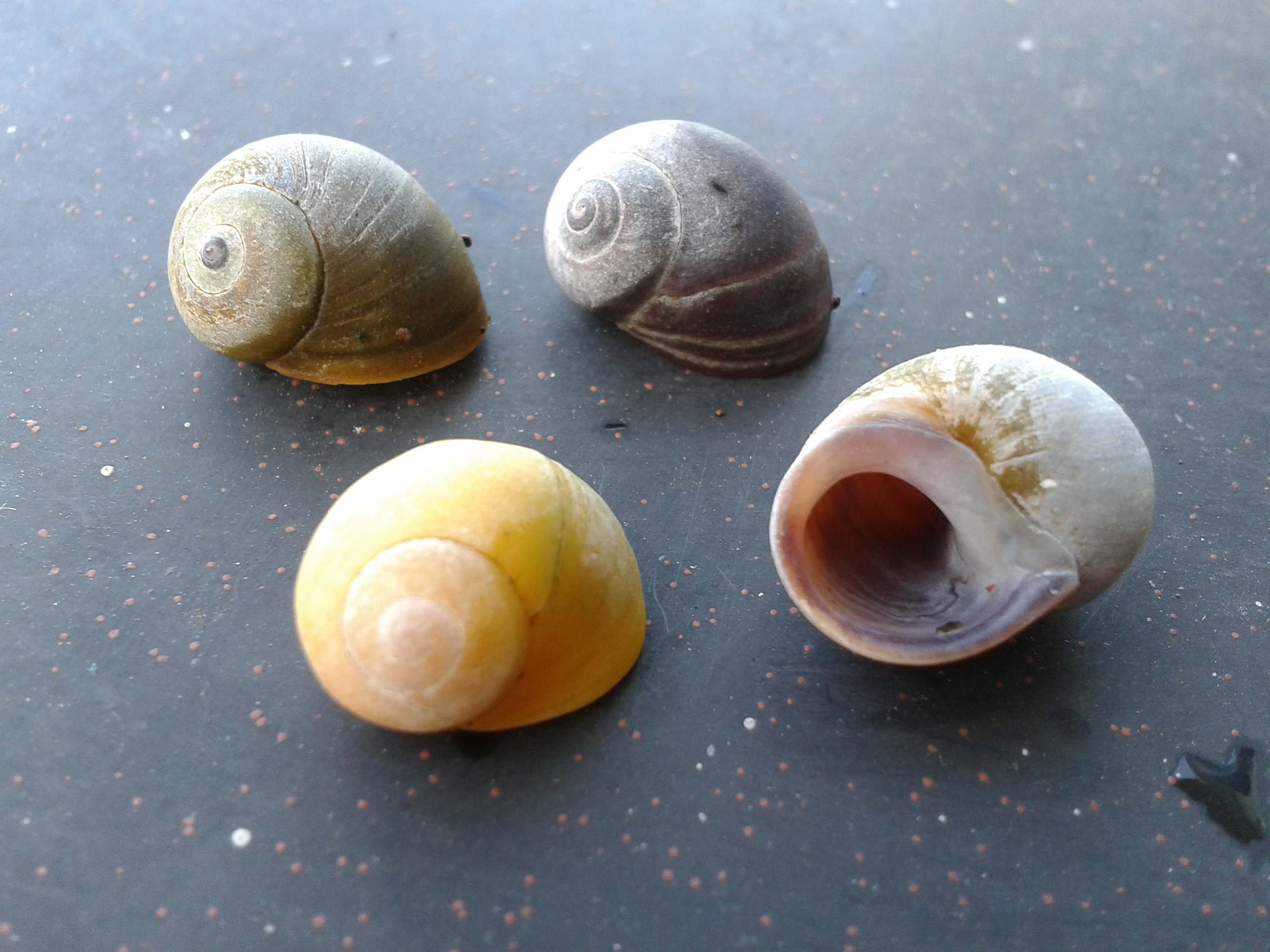 Littorina obtusata come in various color variations. These are from Fossvogur, Iceland.